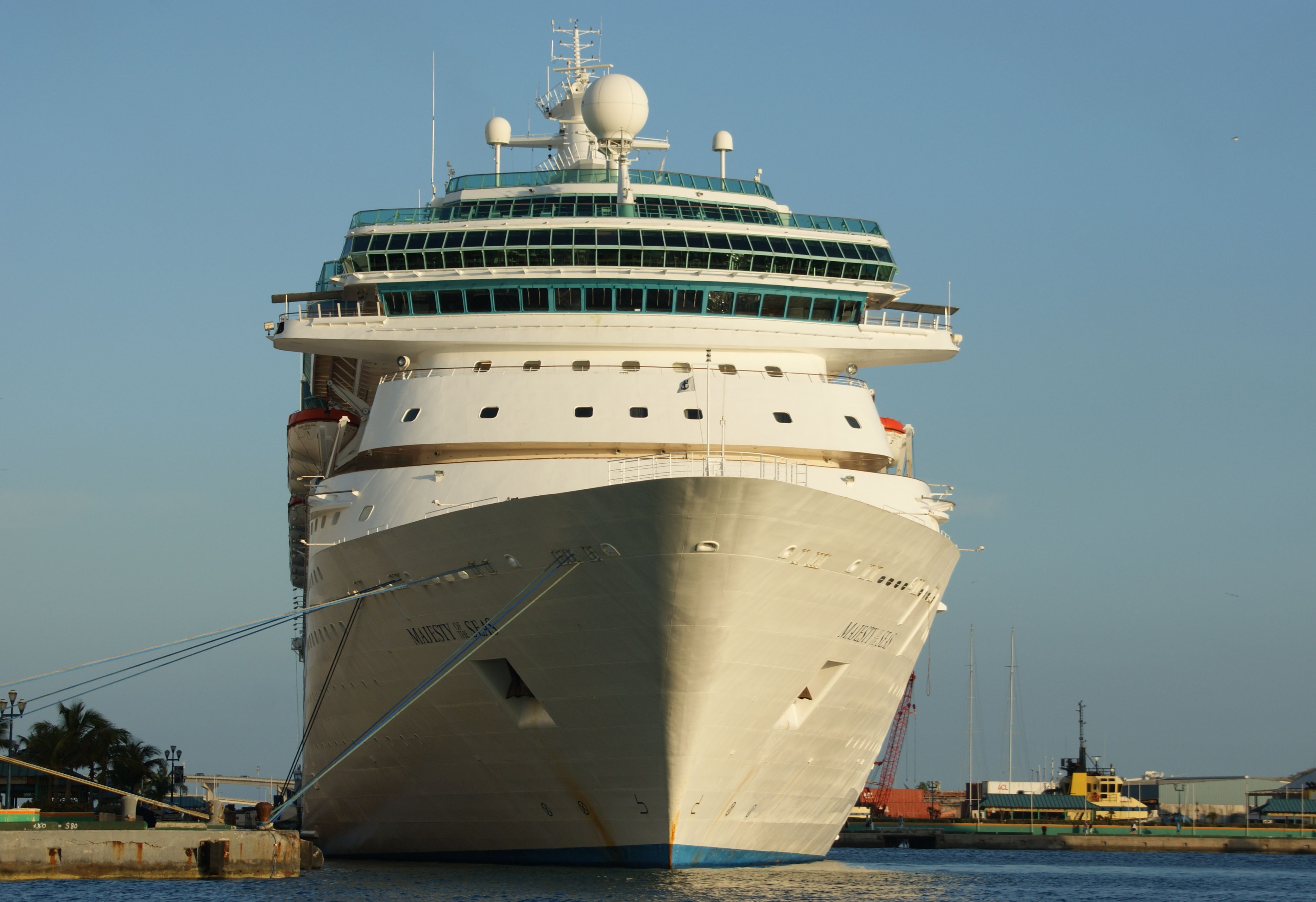 Majesty of the Seas, Nassau Bahamas, January 2011